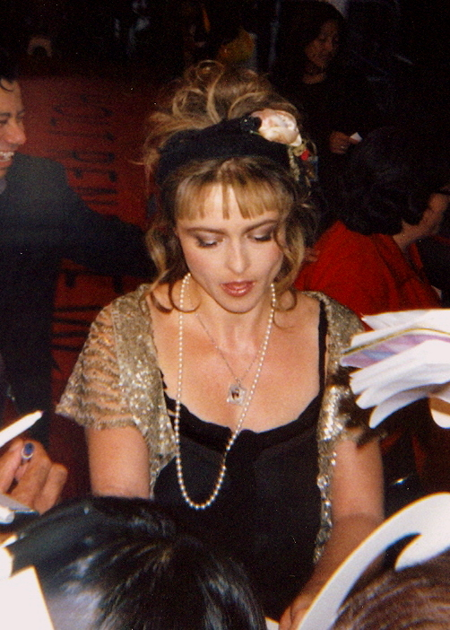 Helena Bonham Carter at the premiere of Wallace and Gromit and the Curse of the Wererabbit, Toronto Film Festival 2005